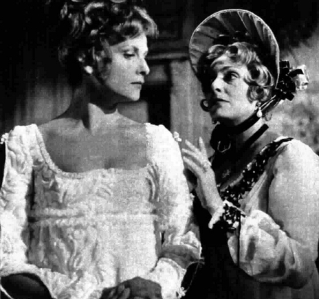 Italian actresses Halina Zalewska and Anna Miserocchi